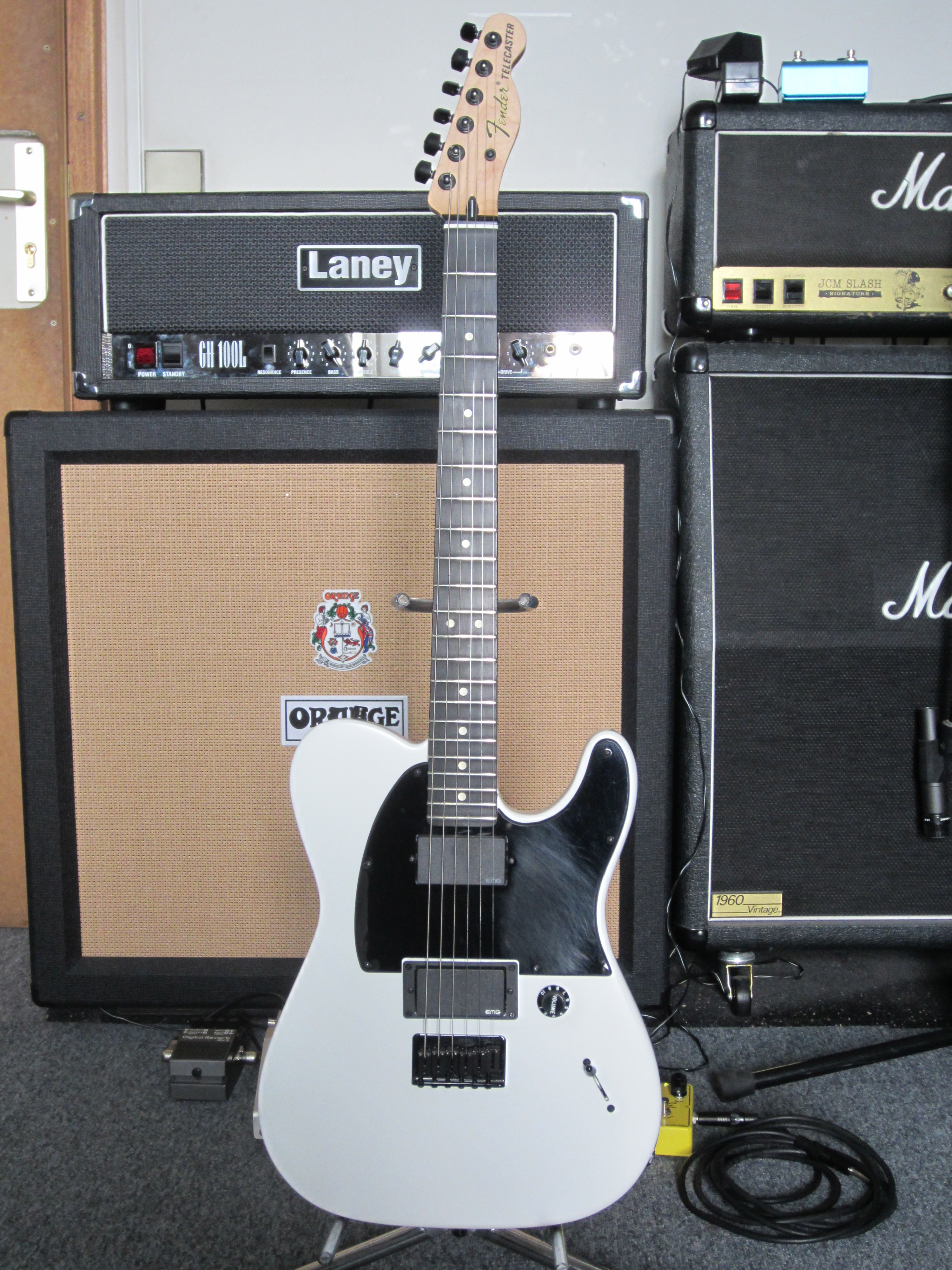 Fender Jim Root Telecaster (Flat White)